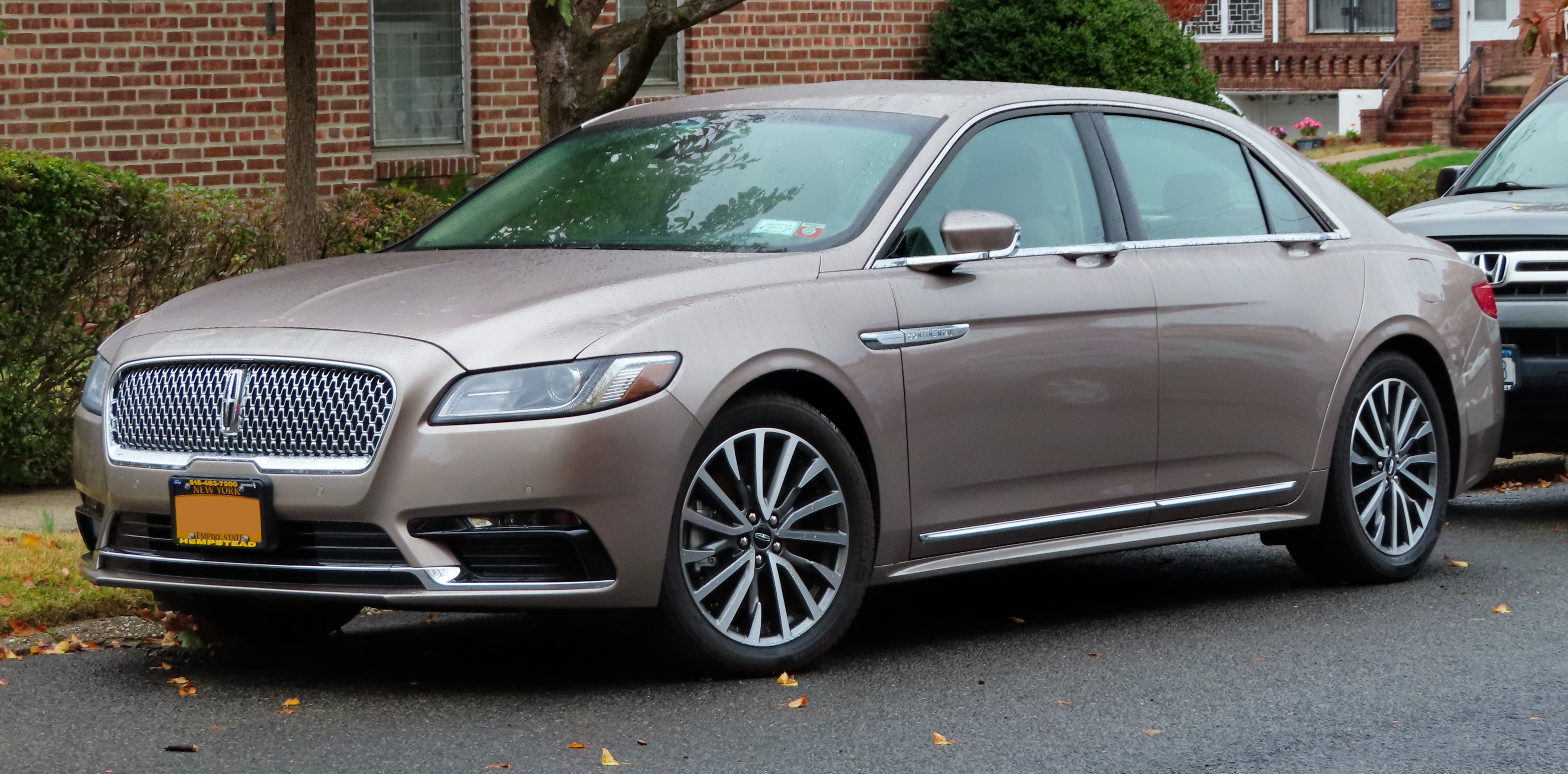 A 2019 Lincoln Continental photographed in Fresh Meadows, Queens, New York, USA